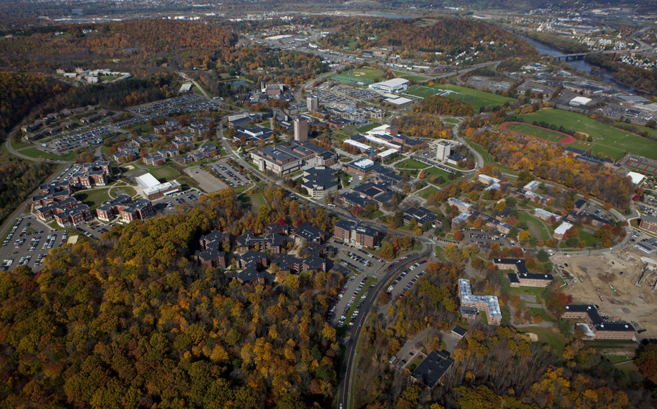 Aerial photo of Binghamton University Fall 2009